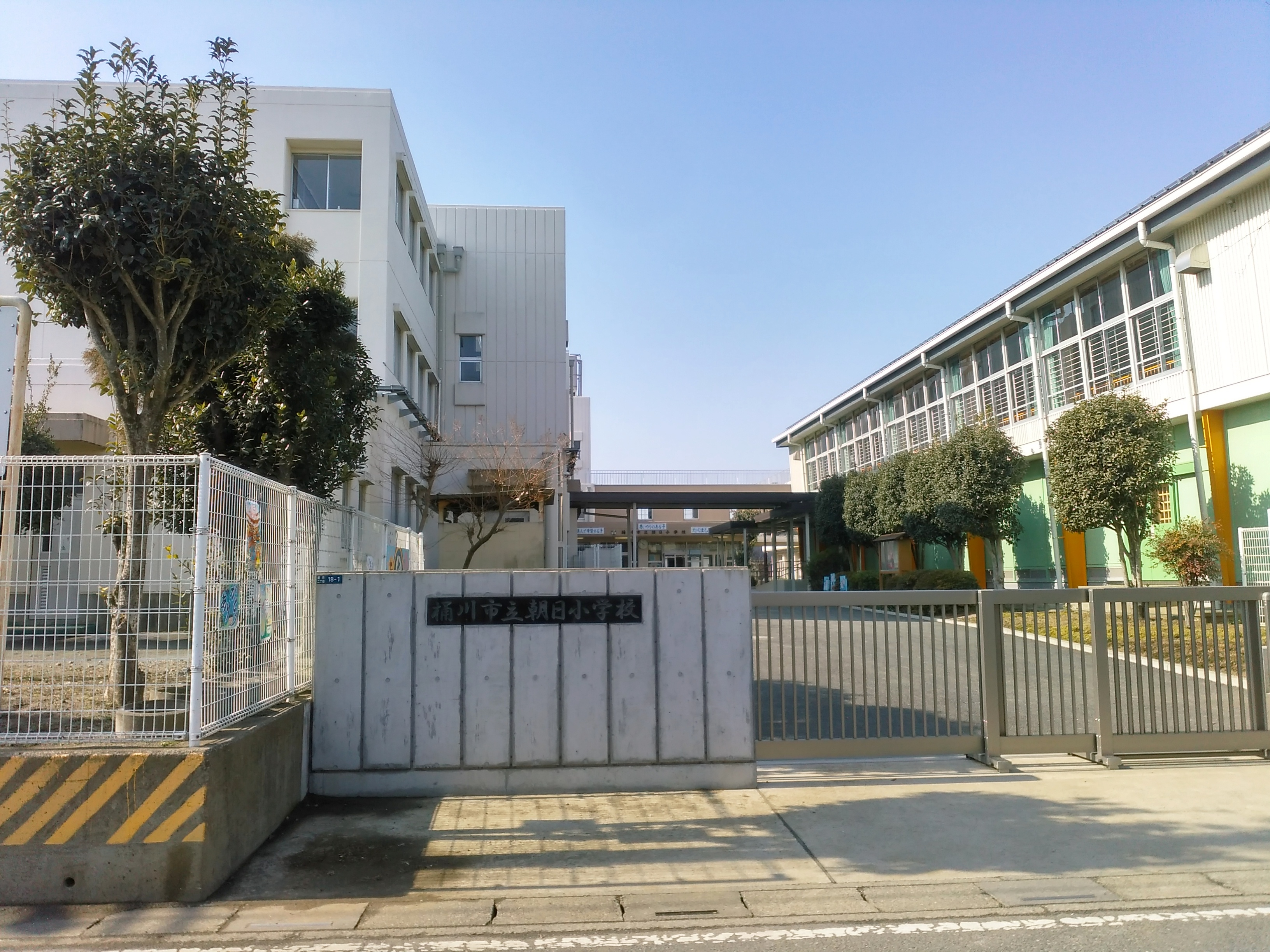 Main entrance to Okegawa Municipal Asahi Elementary School in Okegawa, Saitama, Japan.